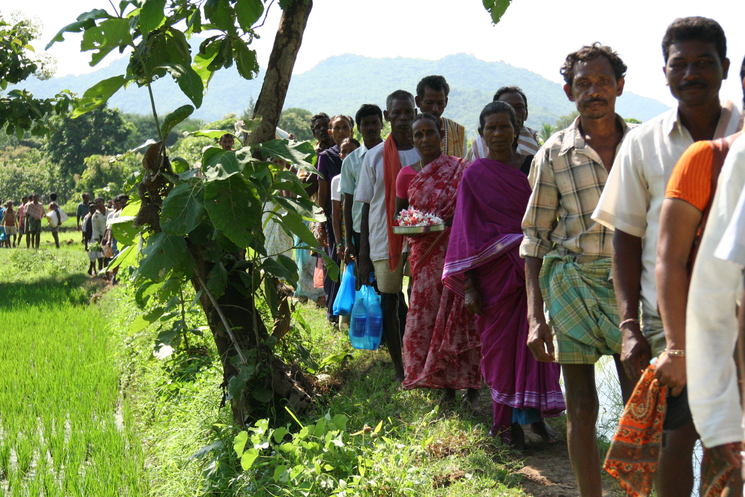 Villagers of Jaganath puram during a visit for organic agriculture training